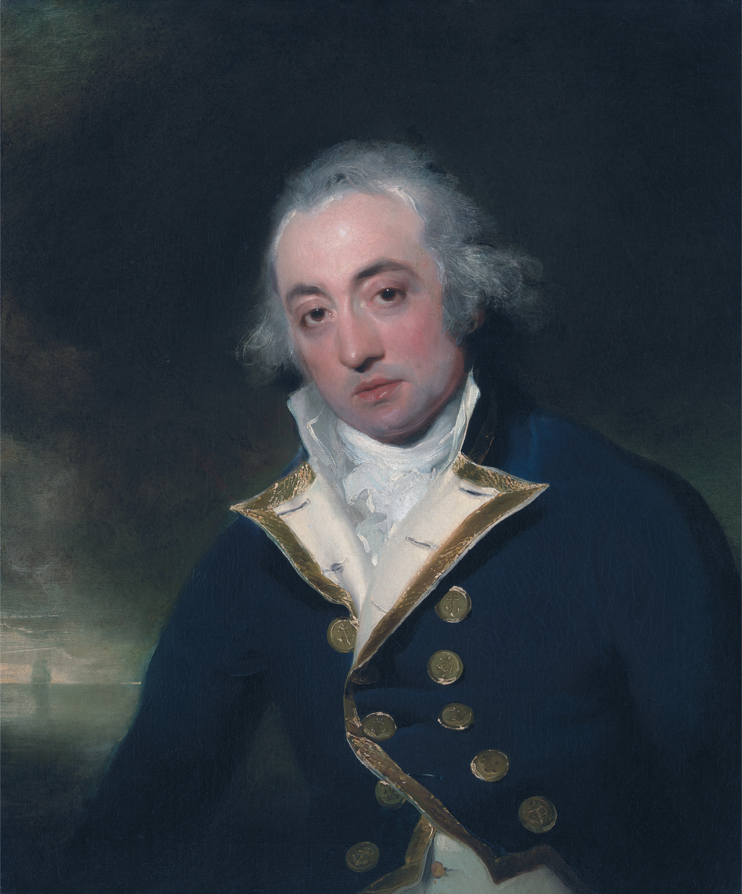 Admiral John Markham oil on canvas 76.2 x 63.5 cm circa 1793